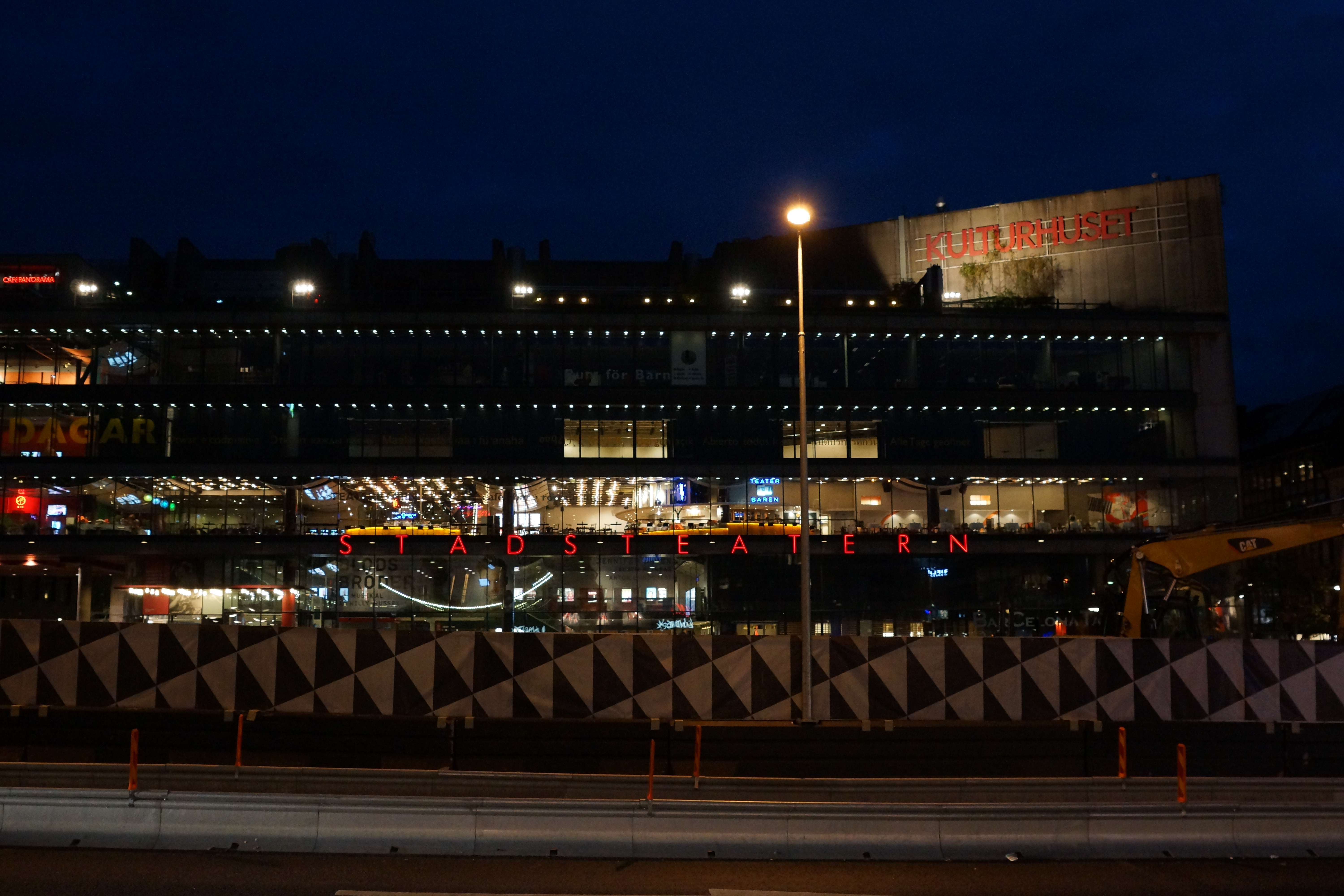 Cultural center "Kulturhuset" in Stockholm, Sweden